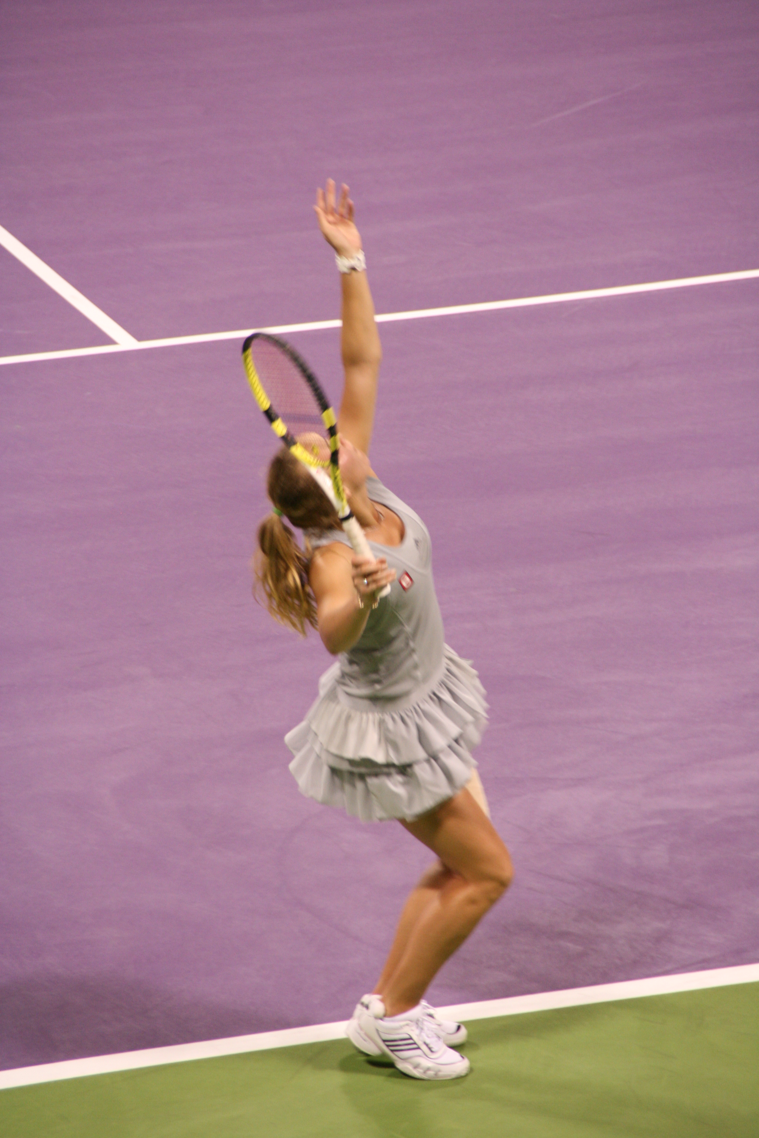 Caroline Wozniacki serving at the 2009 WTA Tour Championships